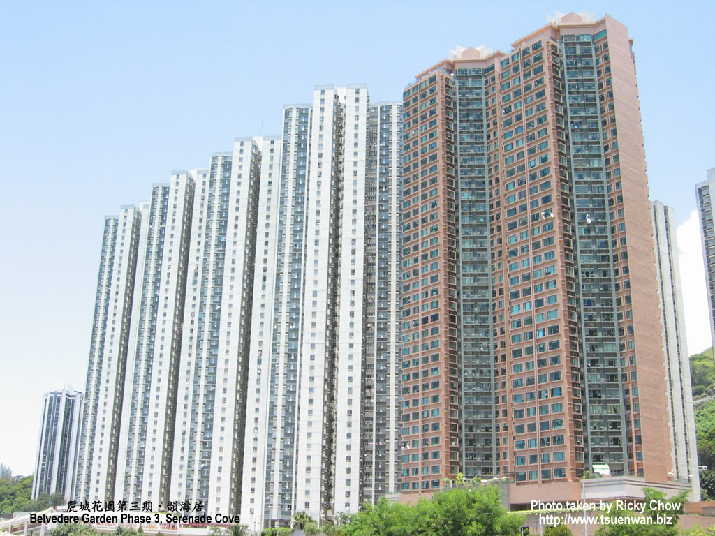 Belvedere Garden and Serenada Cove in Tsuen Wan, New Territories, Hong Kong